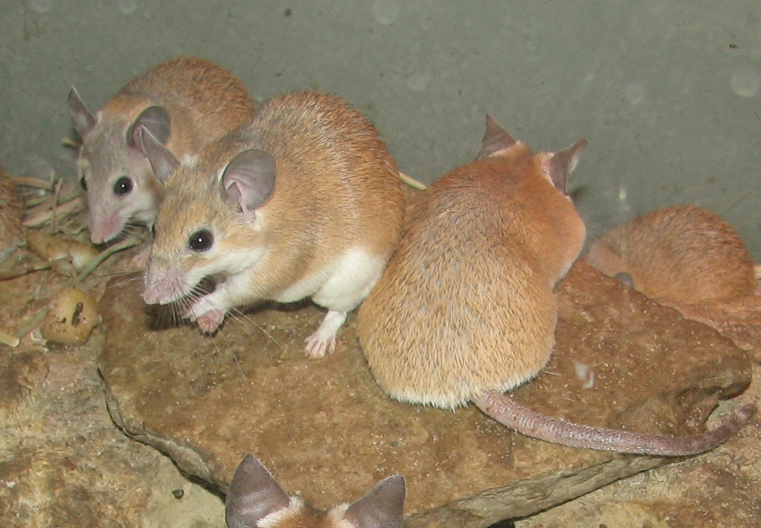 Spiny Mouse (Acomys cahirinus dimidiatus = Acomys dimidiatus) at Louisville Zoo